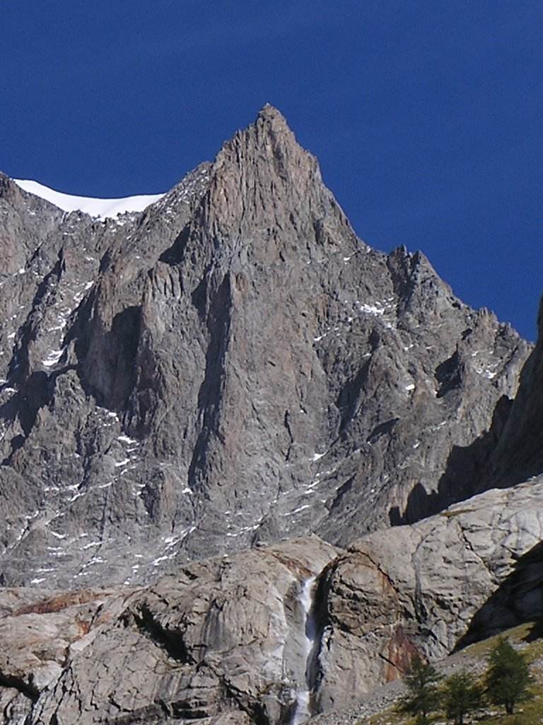 Pointe Gugliermina - South-west face